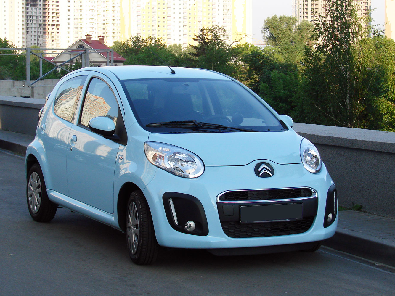 Citroen C1 2012 facelift